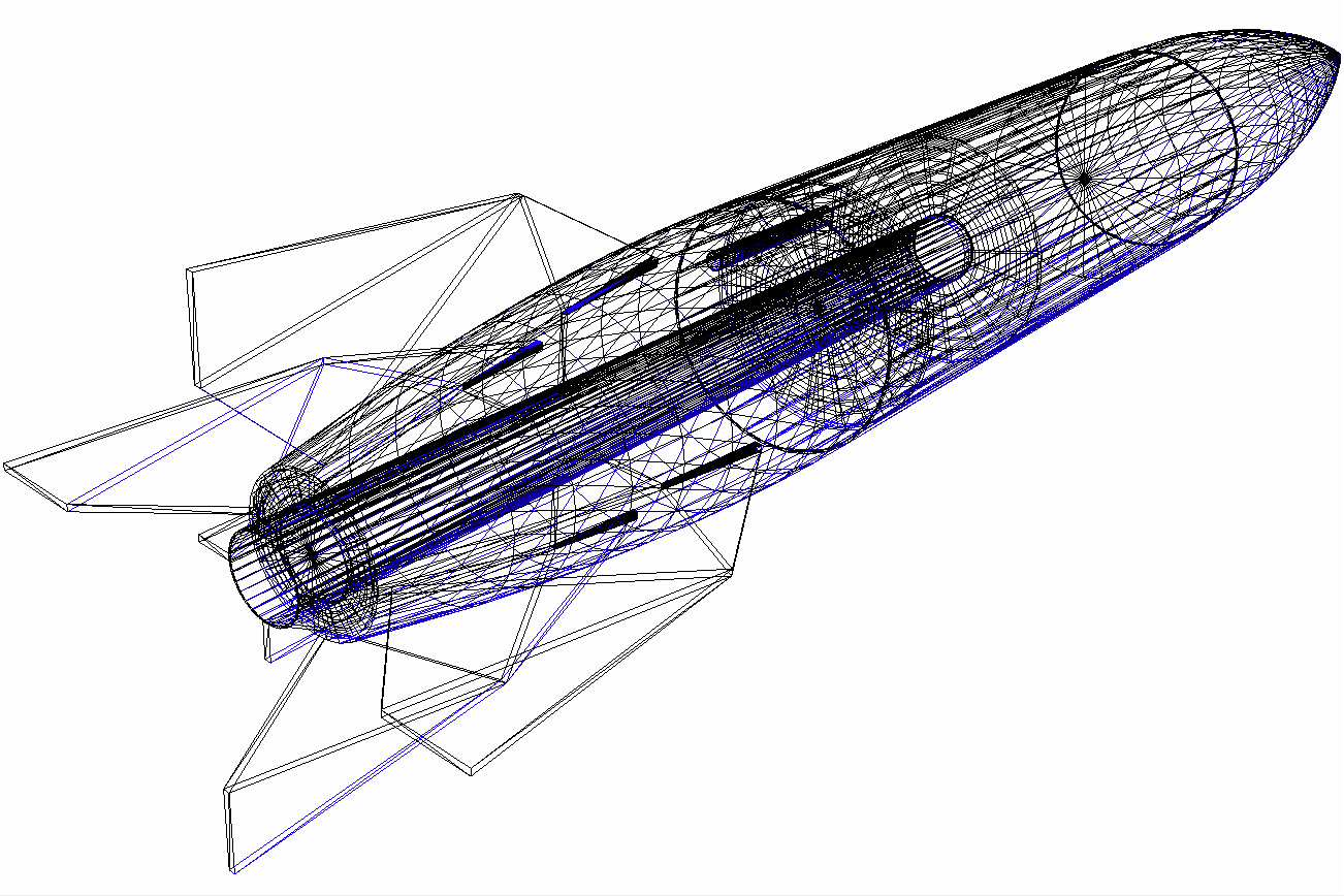 Wireframe model of a V2 rocket